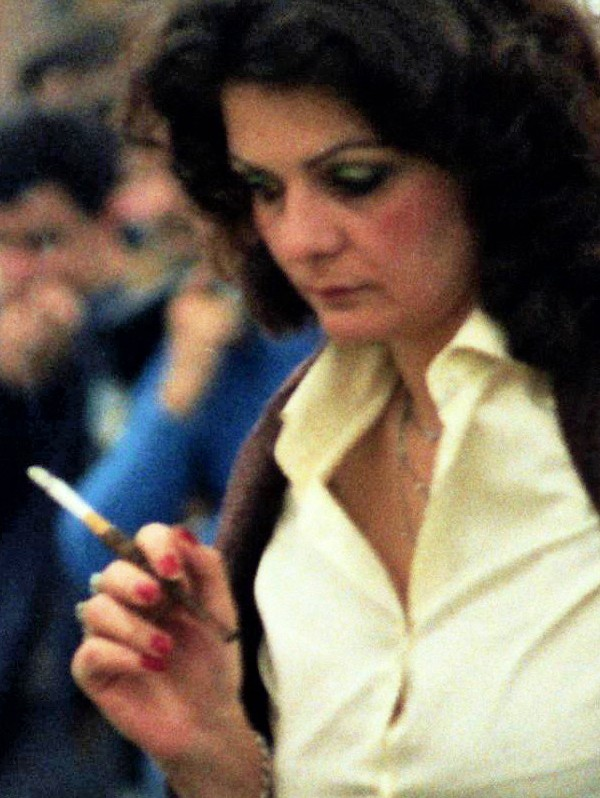 Marija Petrović (chess player), Chess Olympiad 1984 in Thessaloniki, Photographer Gerhard Hund.